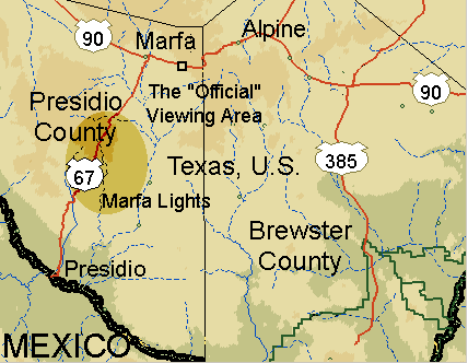 Map of Marfa. Converted to PNG by Fibonacci. File history for the previous image: 09:51, 8 August 2004 . . Toytoy (15389 bytes) (Map of Marfa) 09:38, 8 August 2004 . . Toytoy (15148 bytes) (Map of Marfa) 06:40, 8 August 2004 . . Toytoy (11005 bytes) (Map of Marfa) 01:26, 8 August 2004 . . Toytoy (7996 bytes) (Map of Marfa)